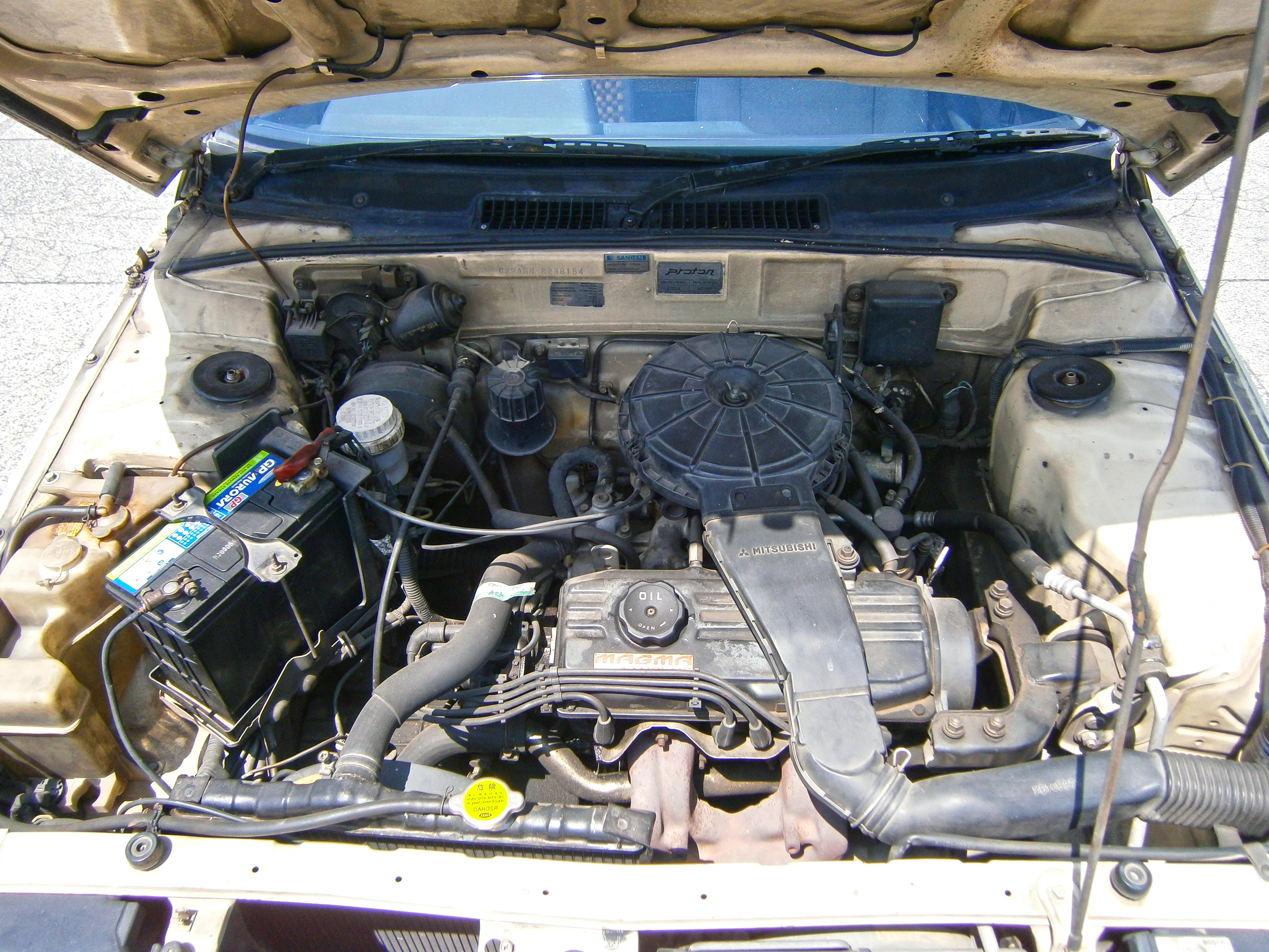 1990–1992 Proton Saga 1.5L saloon (engine) in Cyberjaya, Malaysia.Notes : 4G15P engine, produced by Proton under license from Mitsubishi Motors. 1.5-litre, SOHC, in-line 4-cylinder with carburettor.